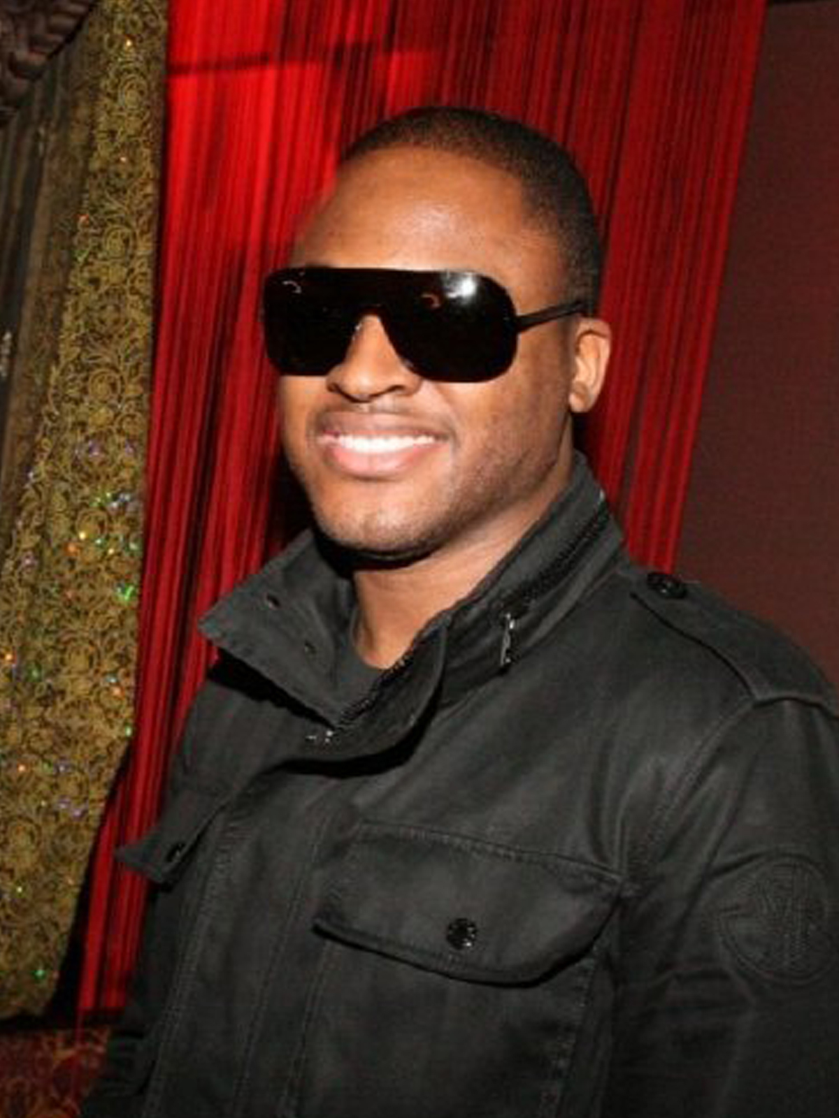 American singer Taio Cruz pictured in 2009 at Tup Tup Palace nightclub, Newcastle upon Tyne, UK.